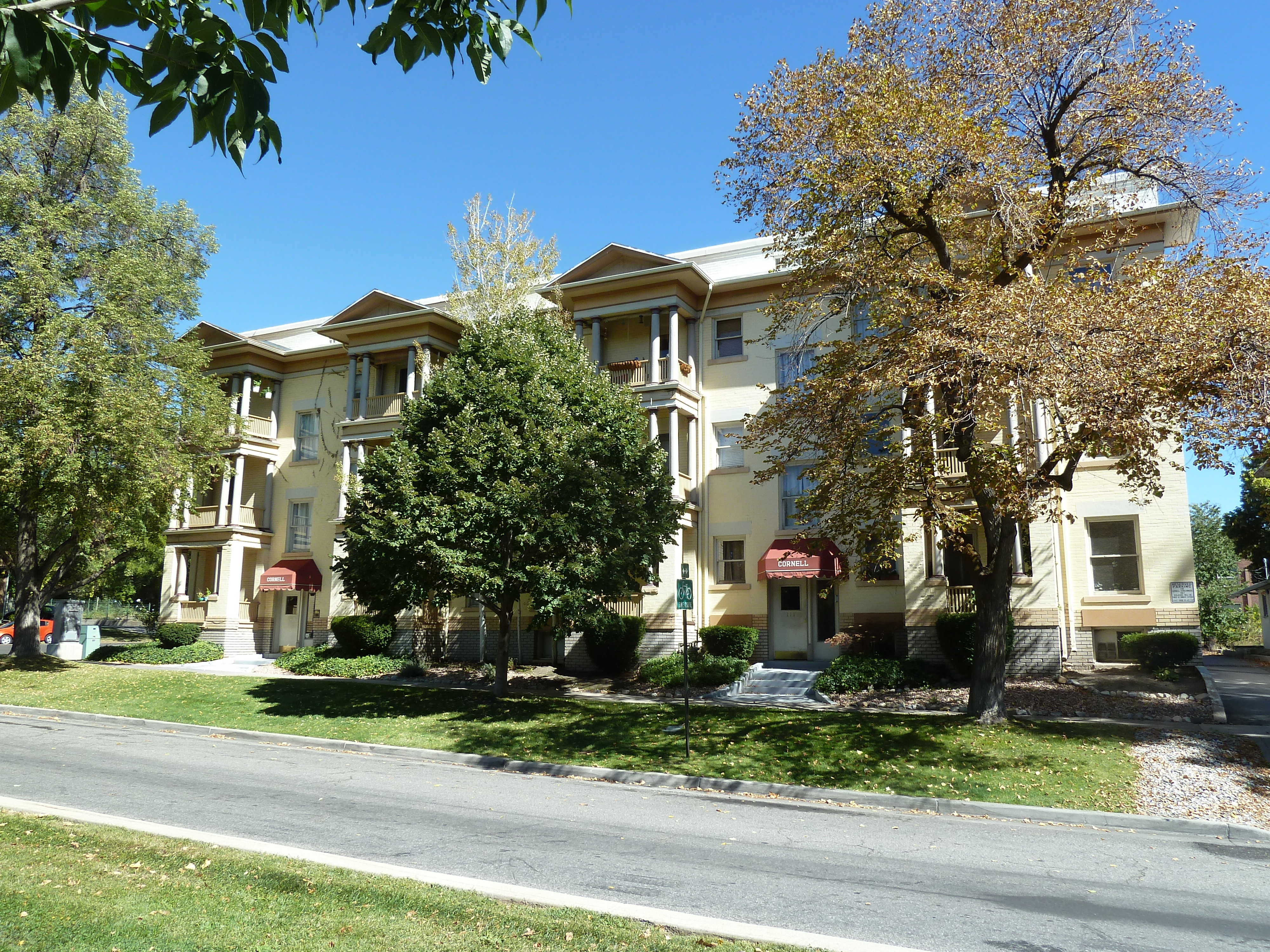 Cornell Apartments, 101 S. 600 East Central City